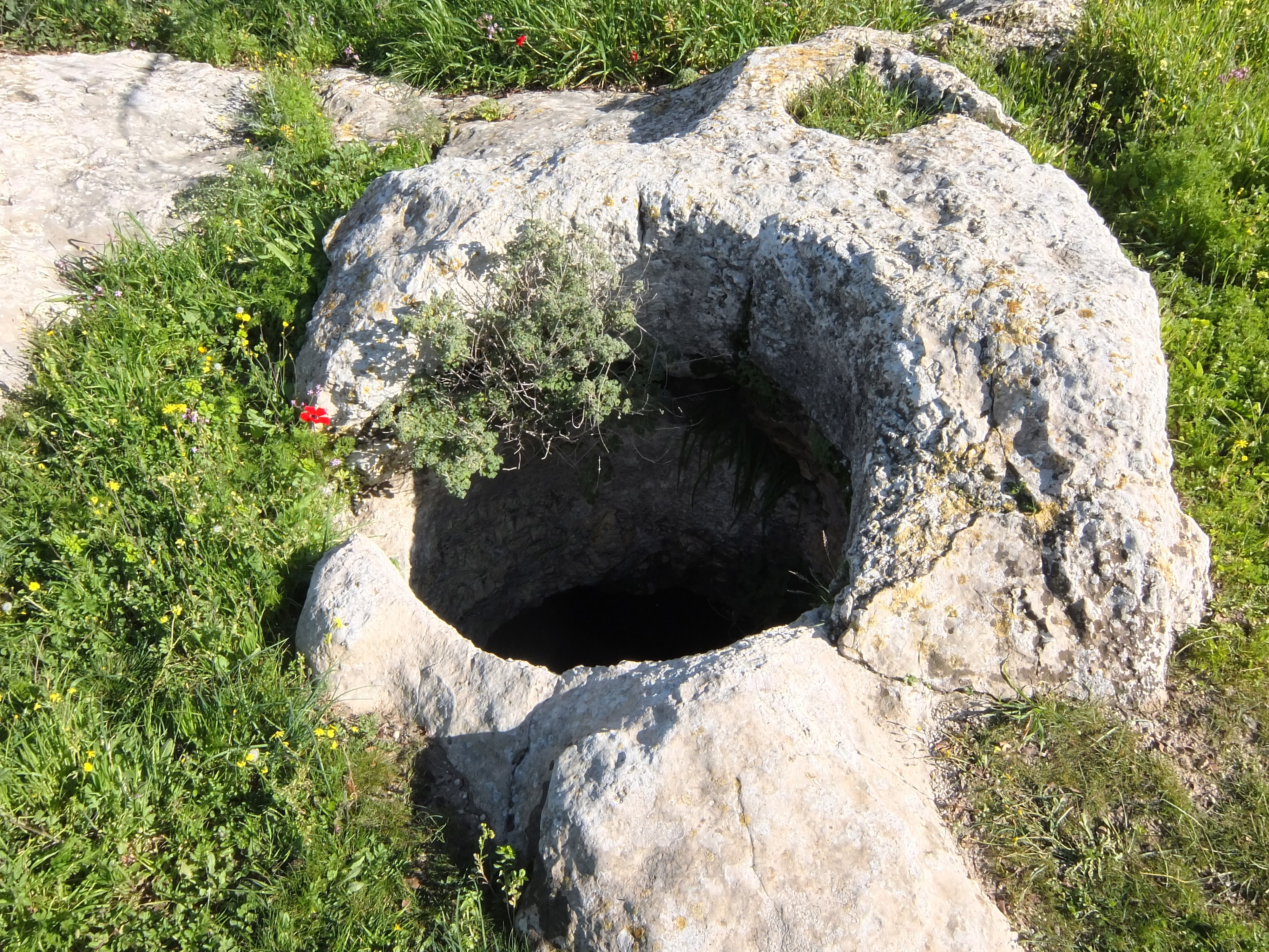 Cistern dug in the rock at Tel Socho, Elah Valley